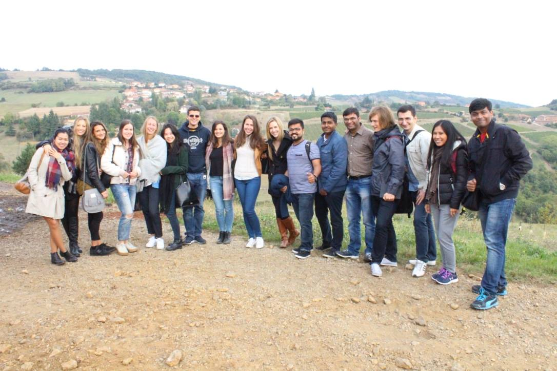 The Photo is the photo of IIM Kashipur Students in France